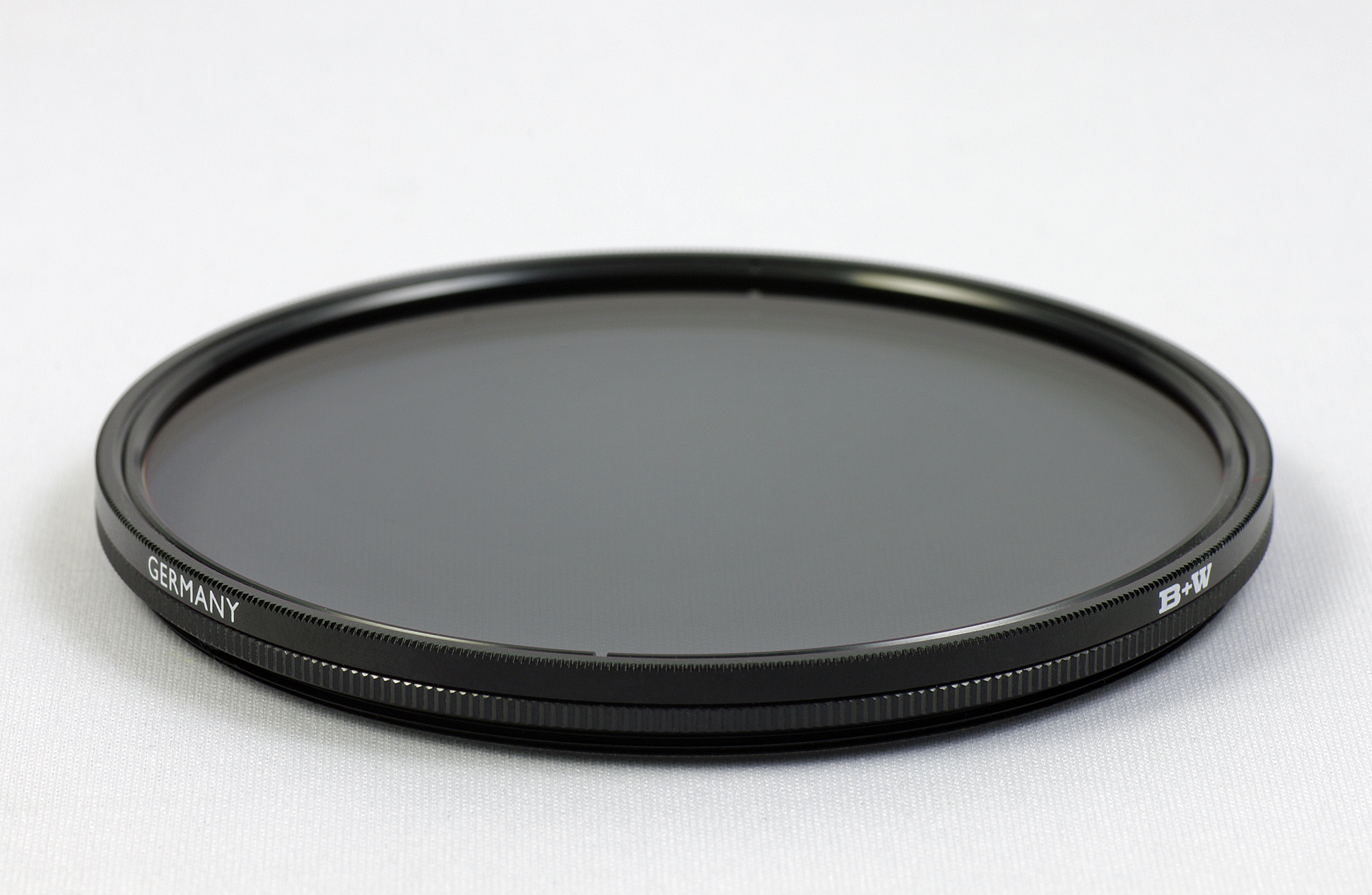 The circular polarization filter B + W Slim Kaesemann AUCM SL 77 E for filter thread 77 mm.